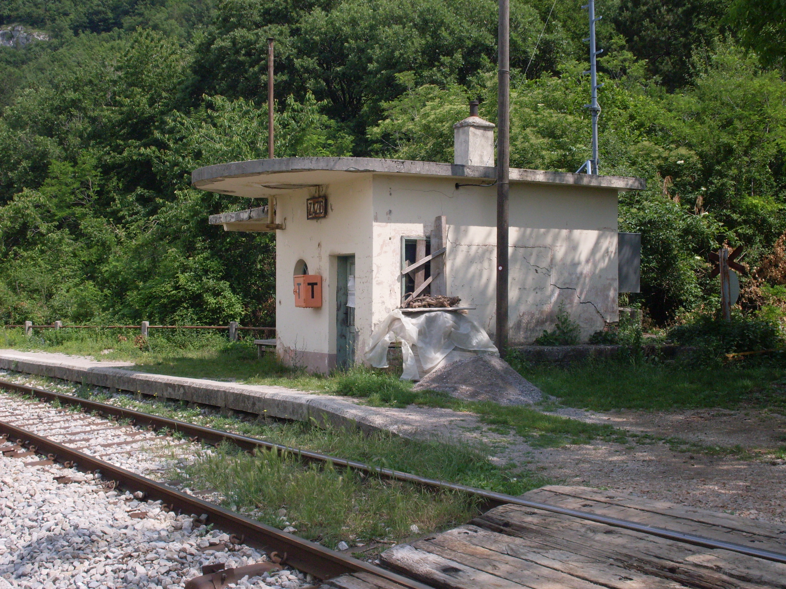 Railway halt Zazid, located on a slope above the villageSlovenščina: Železniško postajališče Zazid, nahaja se na pobočju nad vasjo